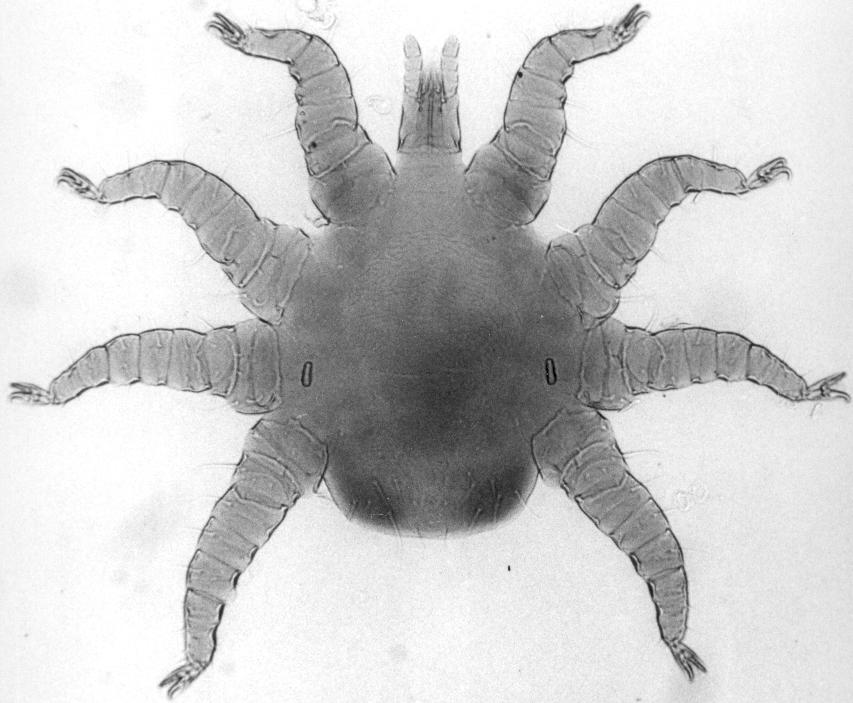 Tinaminyssus melloi, nymph. This Rhinonyssid mite was collected from the nasal cavity of a feral pigeon (Columba livia) in Budapest, Hungary.